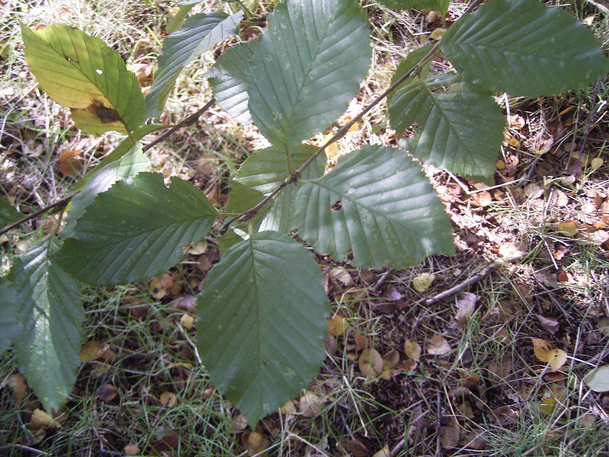 Deze foto toont de Betula medwediewii. Ik nam de foto zaterdag 1 oktober 2005 in het arboretum in Wageningen. This pic shows Betula medwediewii. I took the photo on saturday 1 october 2005 in Wageningen, Netherlands.